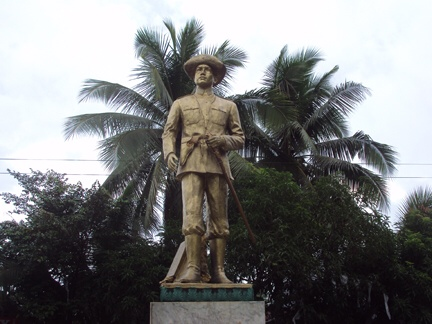 Monument to Eugenio Daza y Salazar in Borongan, Eastern Samar, Philippines.